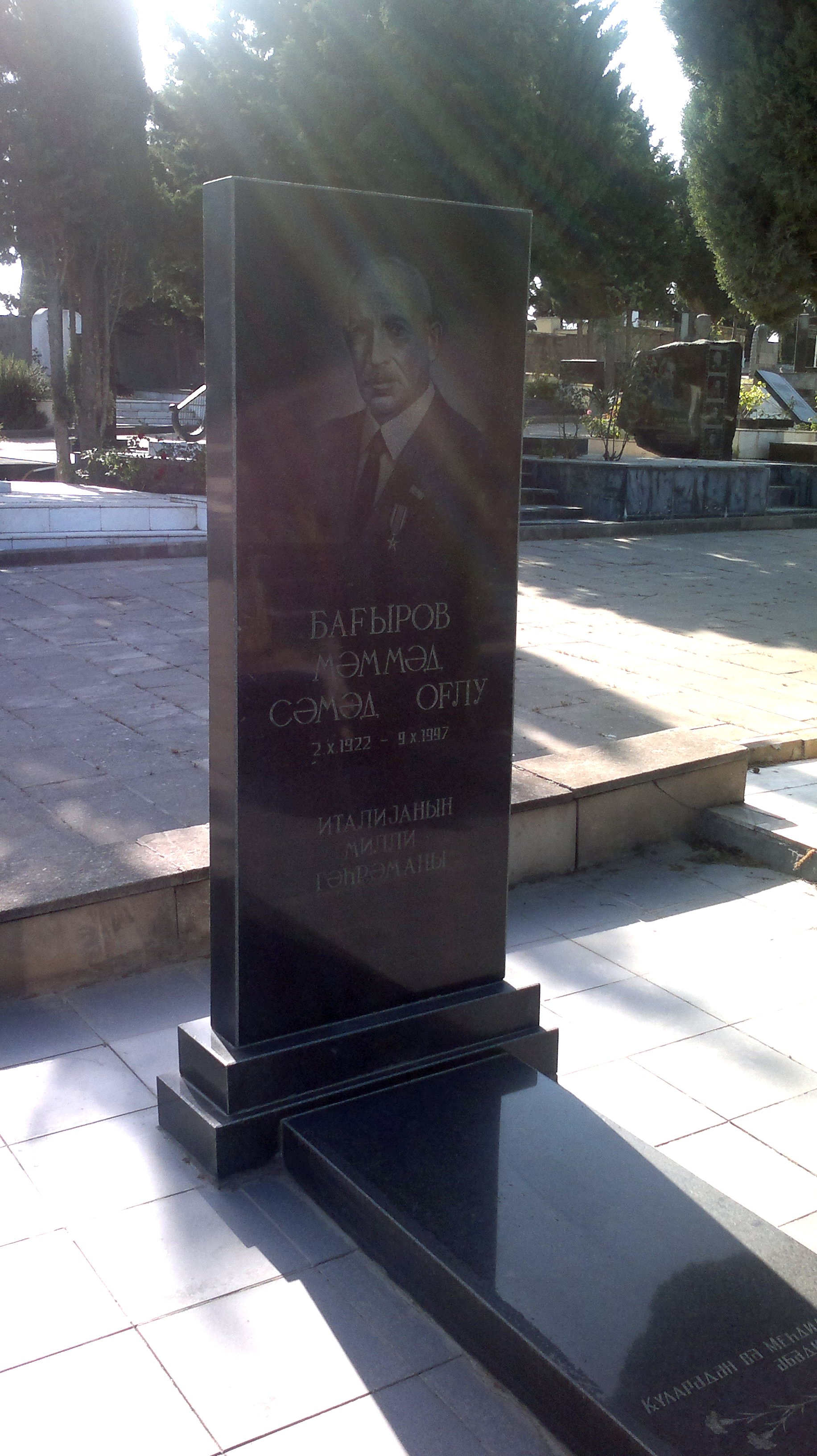 Burial of Mamed Baghirov at II Alley of Honor (Azerbaijan)